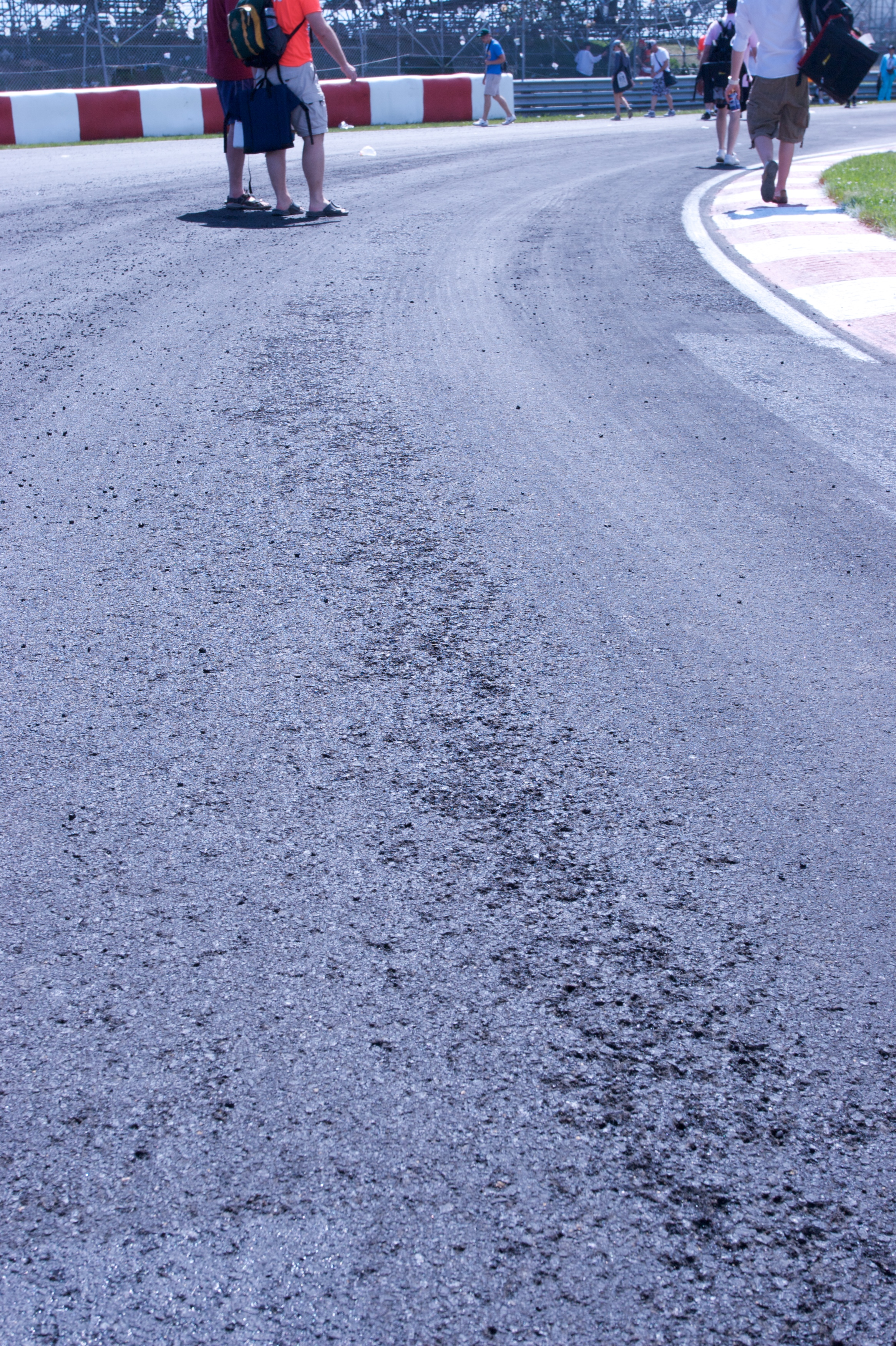 Track wear at the end of the 2008 Canadian Grand Prix.